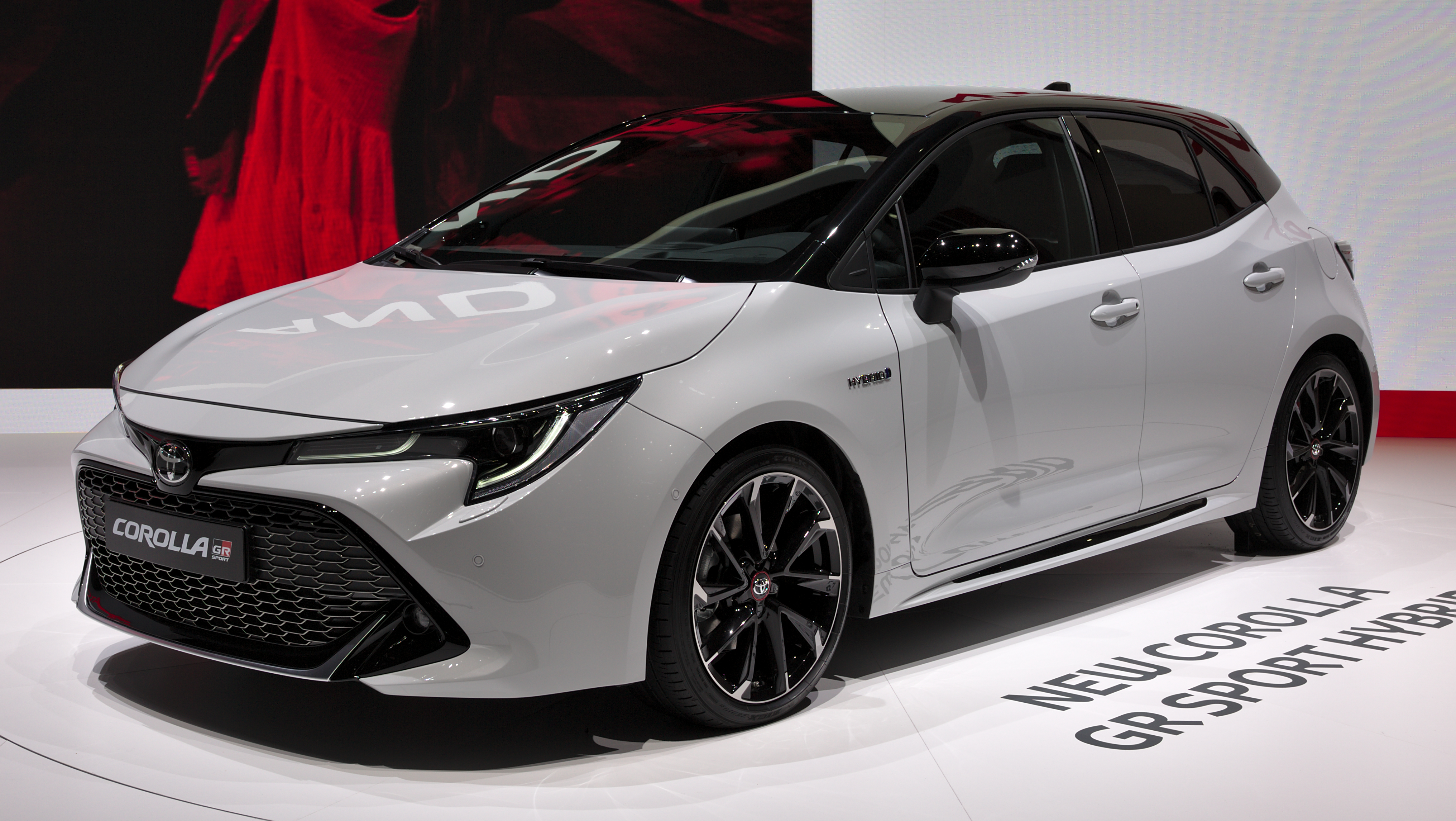 Toyota Corolla GR Sport Hybrid at Geneva Motor Show 2019